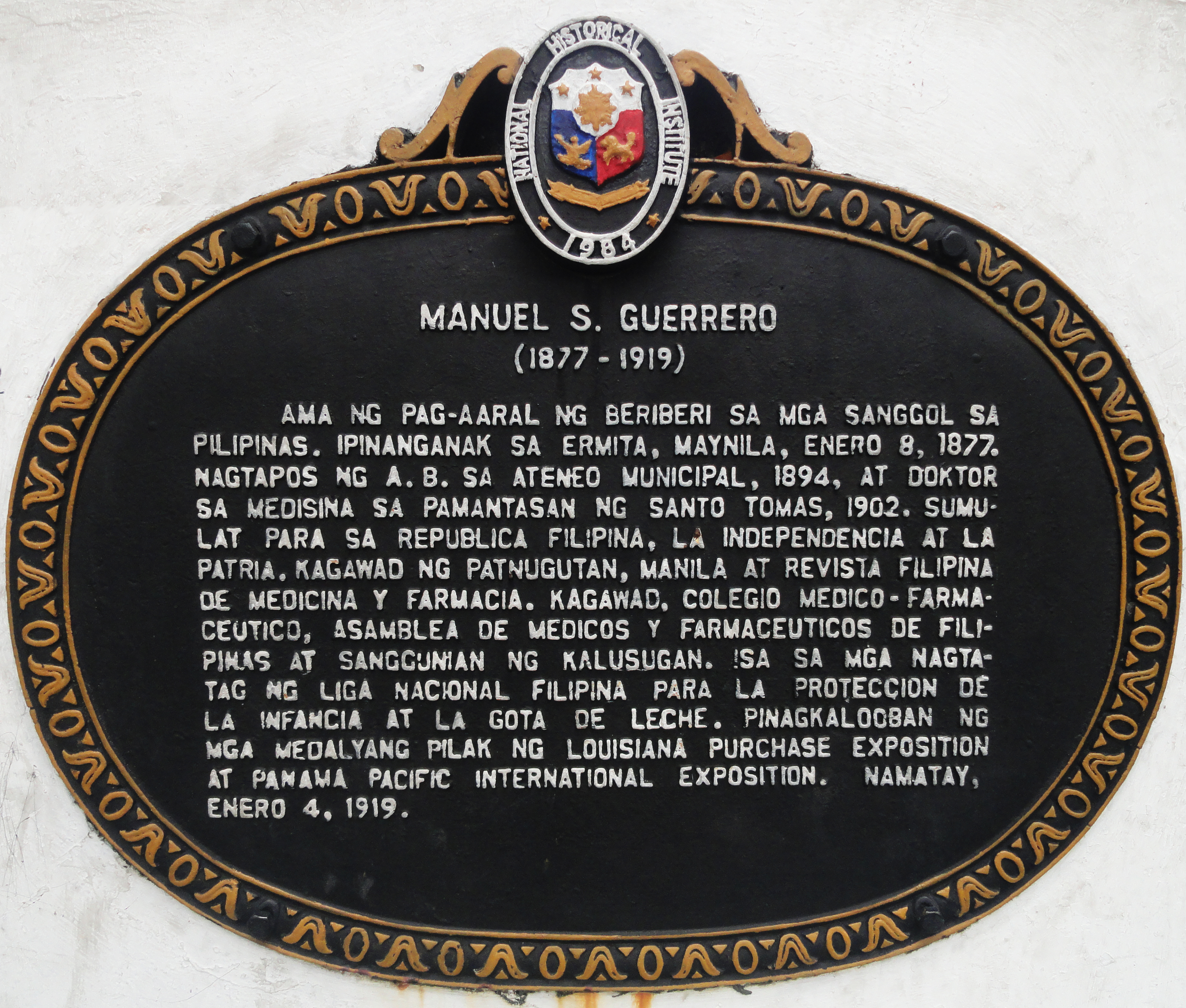 Manuel S. Guerrero (1877 - 1919) marker